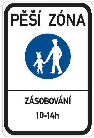 Road sign of the Czech Republic